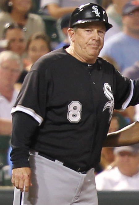 White Sox 3rd base coach Jeff Cox.